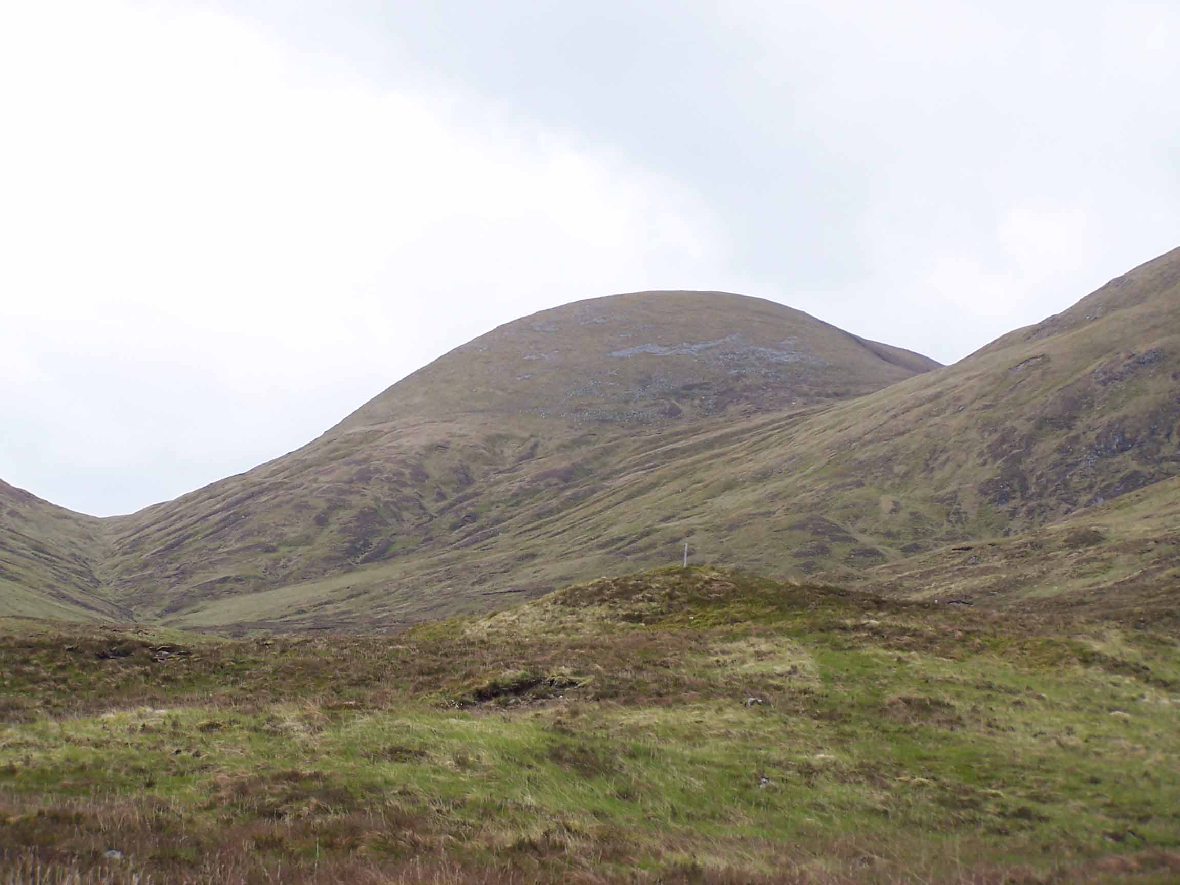 Personal picture taken by Mick Knapton